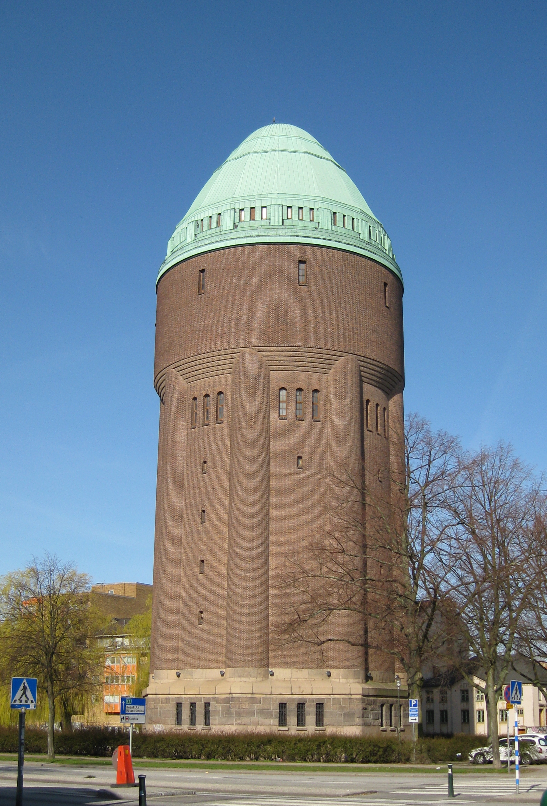 Södervärn water tower in Malmö, Sweden